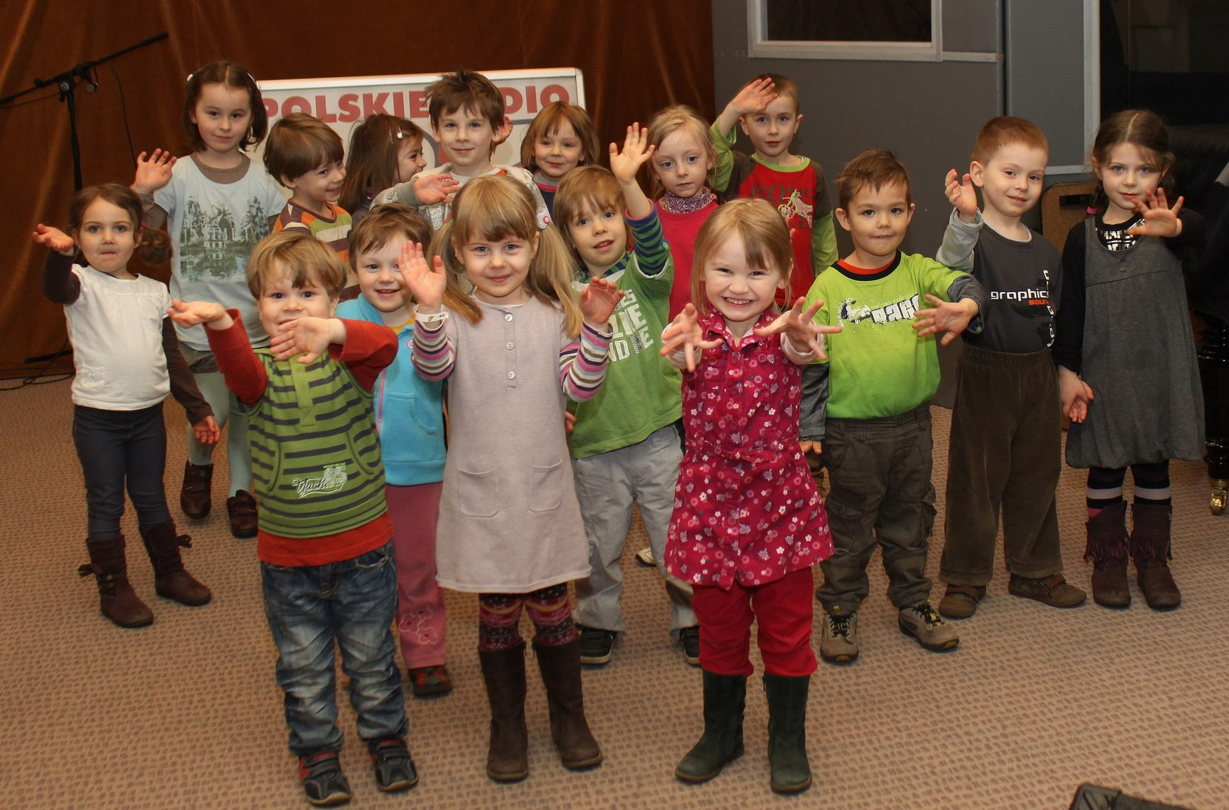 Children recording song "Nowe Chiny"